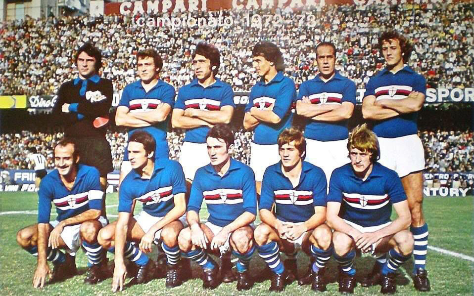 A line-up of U.C. Sampdoria in the 1972–73 season, posing inside the Luigi Ferraris Stadium in Genoa; recognizes, standing: Luis Suárez Miramontes (second from the right) and Marcello Lippi (first from the right).